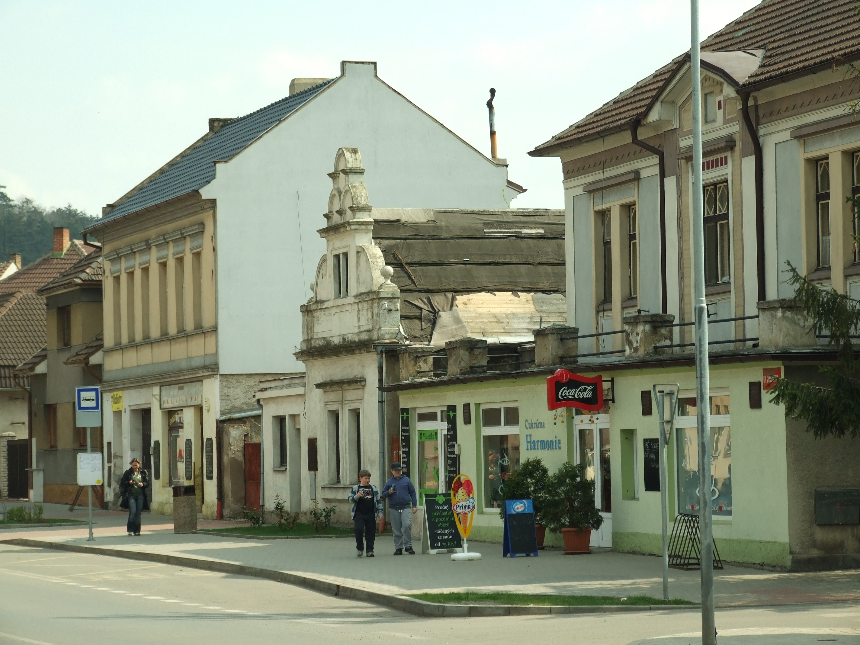 Sweetshop in Všetaty, Mělník District, Central Bohemian Region, CZ